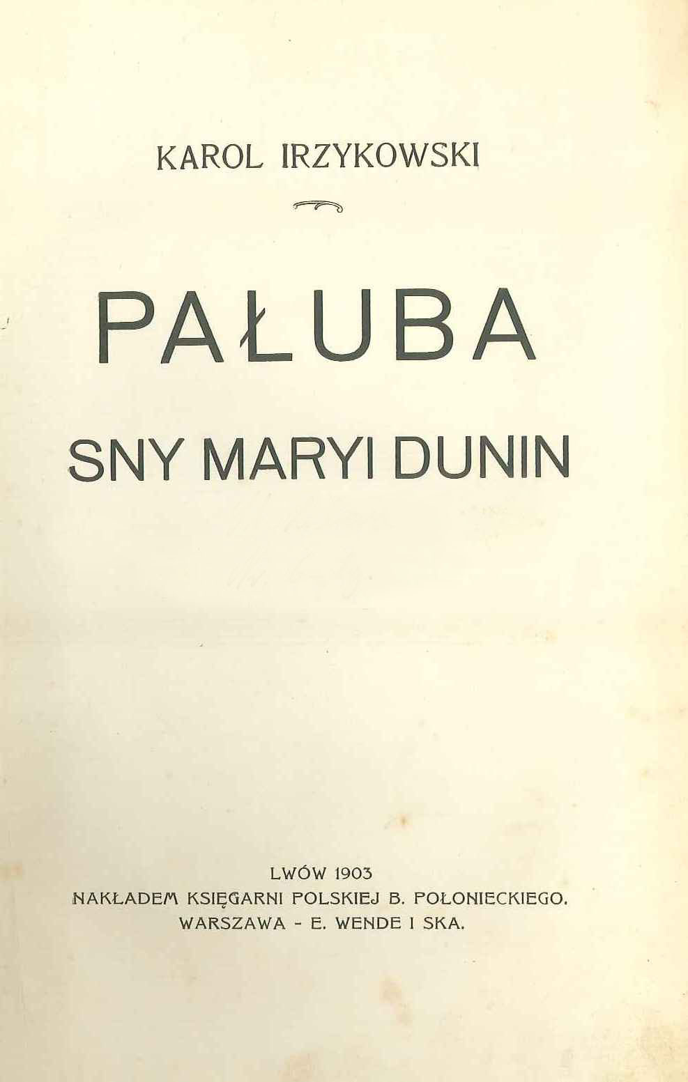 a title page of the first edition of Irzykowski's Paluba